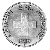 Swiss Commemorative Coin 1939 CHF 5 reverse